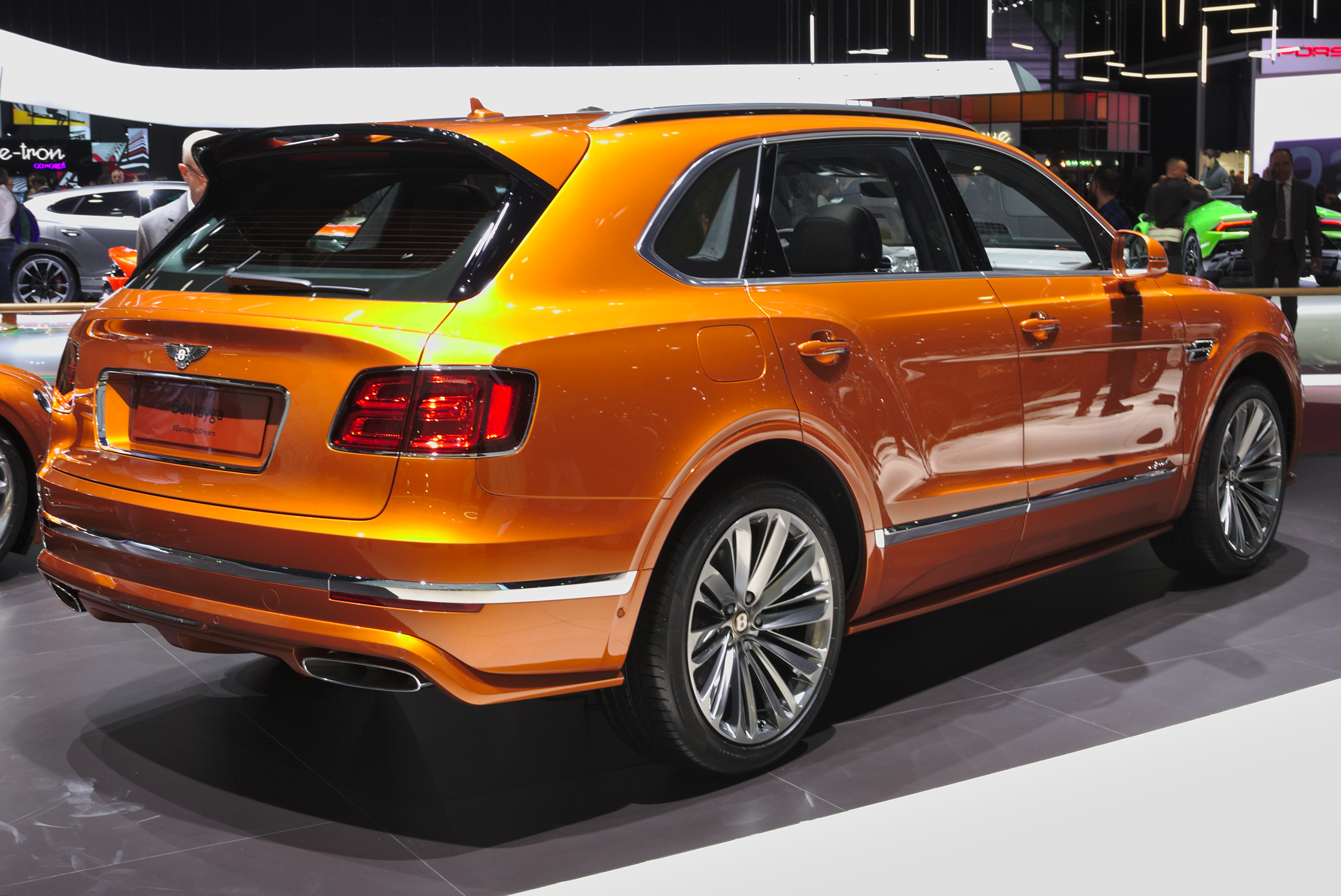 Bentley Bentayga Speed at Geneva Motor Show 2019